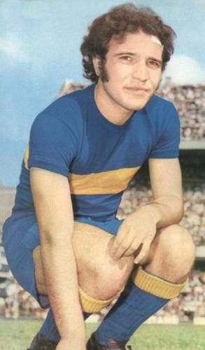 Argentine football player, Osvaldo Potente.